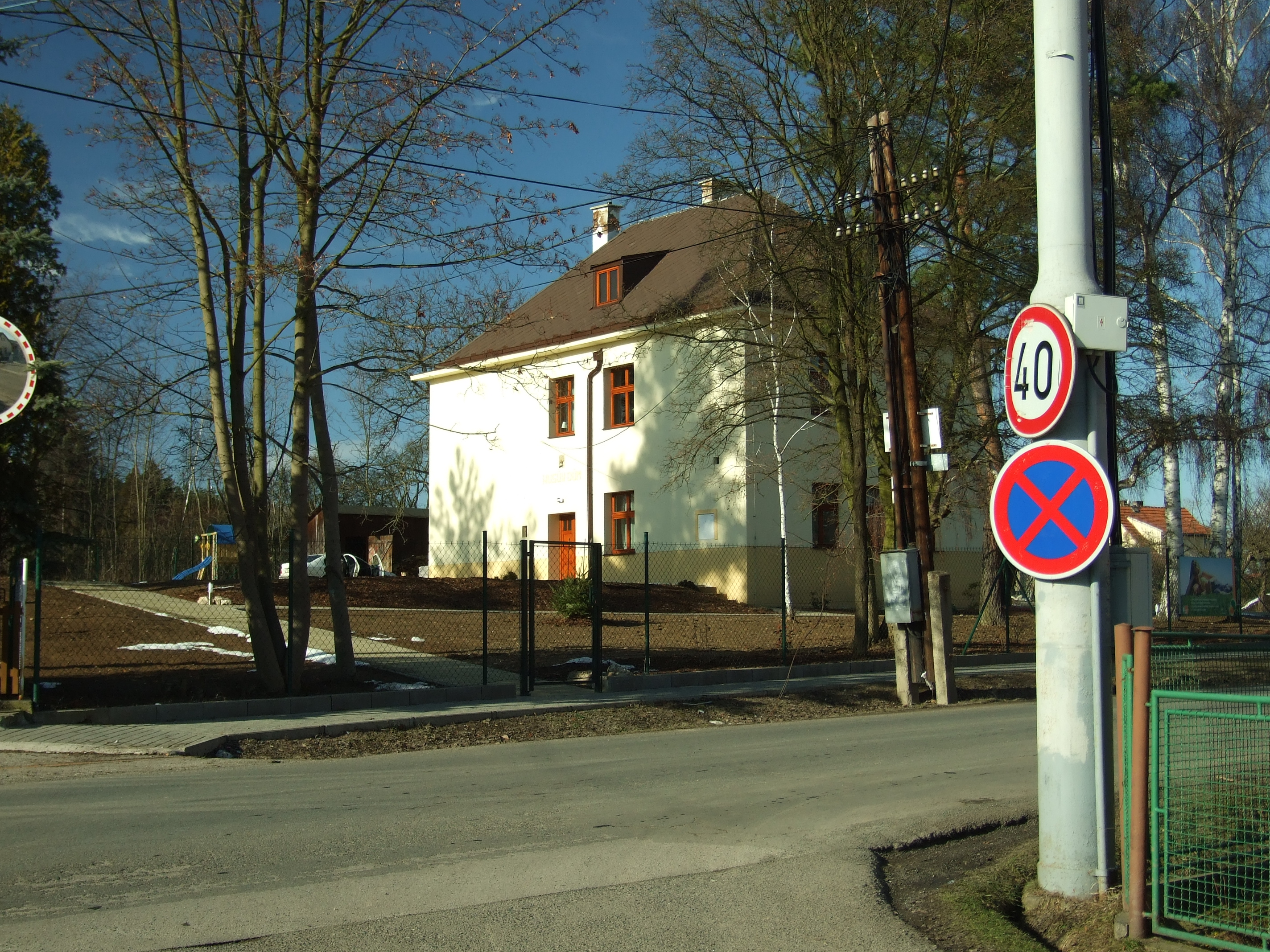 Hvozdnice, a village near Štěchovice and Mníšek pod Brdy, Central Bohemian Region, CZ